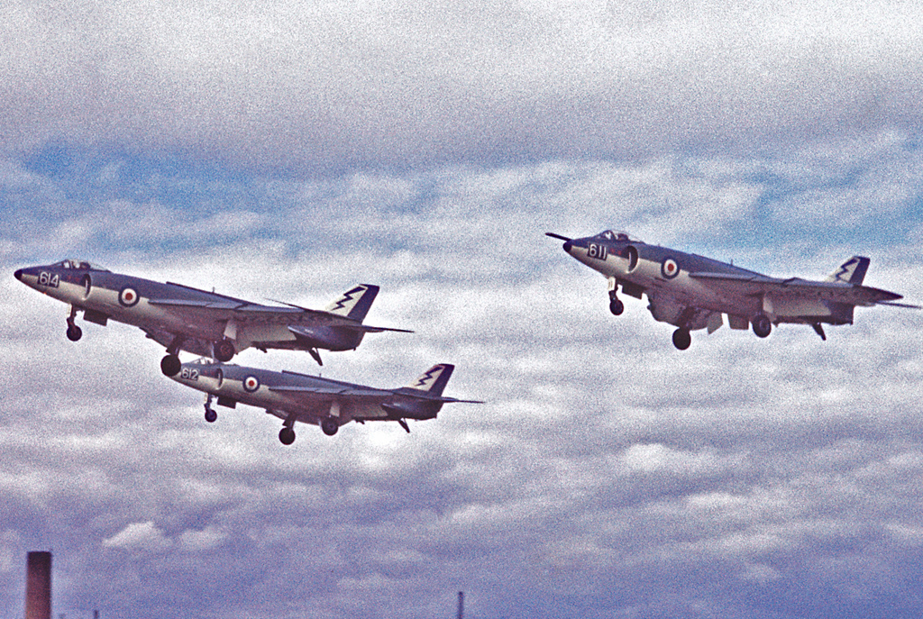 Supermarine Scimitar F.1 aircraft of 736 Squadron Royal Navy at the 1962 Farnborough Air Show